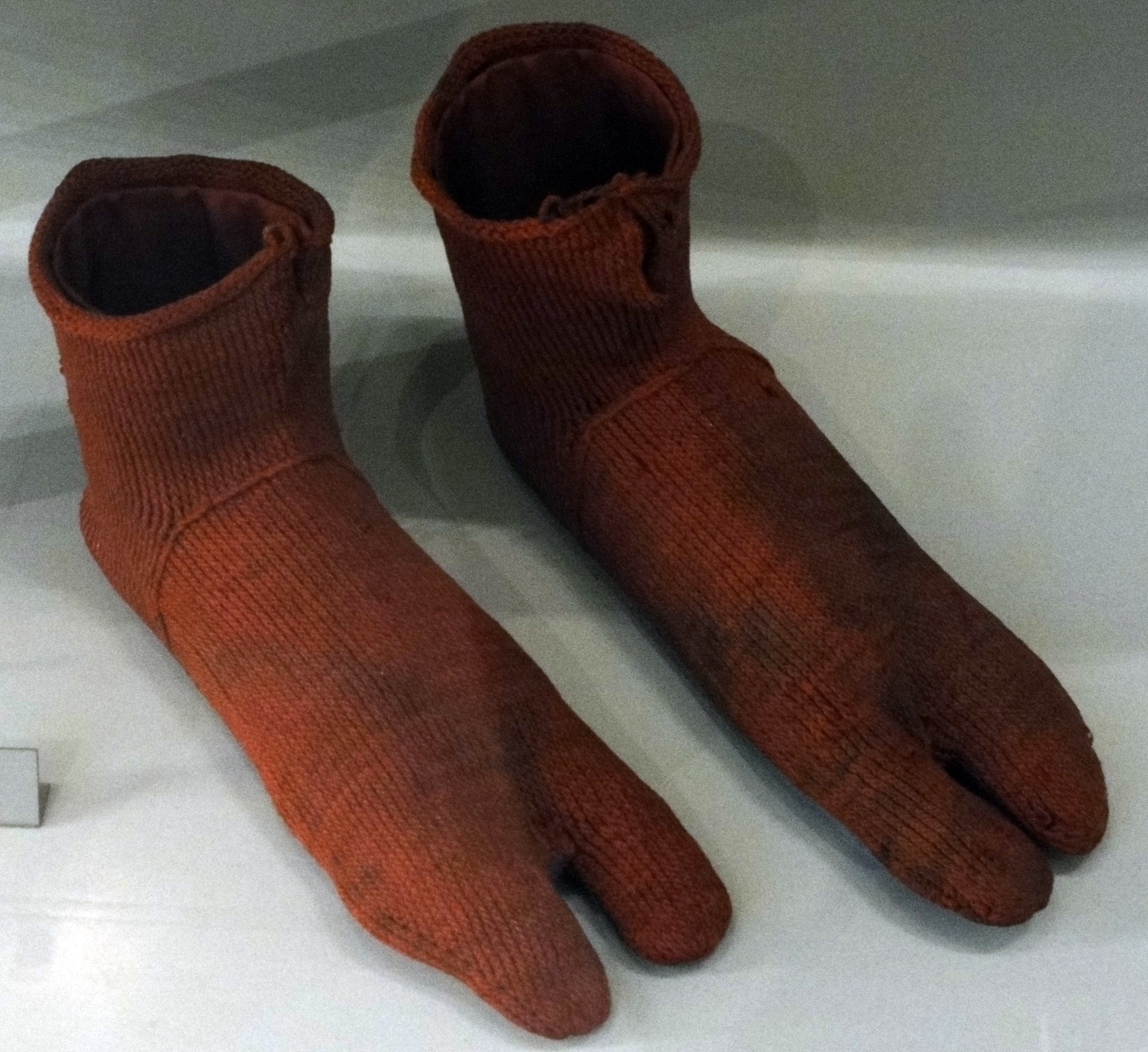 The earliest known surviving pair of socks on display in the V&A museum. Dating from 300-500AD these were excavated from Oxyrhynchus on the Nile in Egypt. The split toes were designed for use with sandals. Museum ref 2085&A-1900. Catalogue link